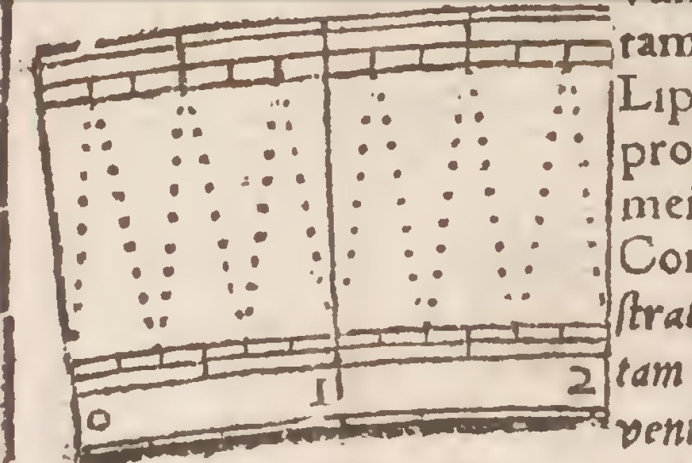 Drawing of the transversal scale in Tycho Brahe's quadrant, divided by means of transversal points so that five seconds of arc could be read on it. -copied from Astronomiae Instauratae Mechanica- (the radius of Tycho's quadrant was about 2 meters)